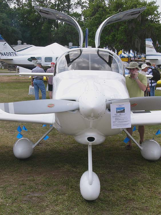 The RV-10 from the front, showing the gull-winged doors for cabin entry. I took this photo at Sun 'n Fun 2006